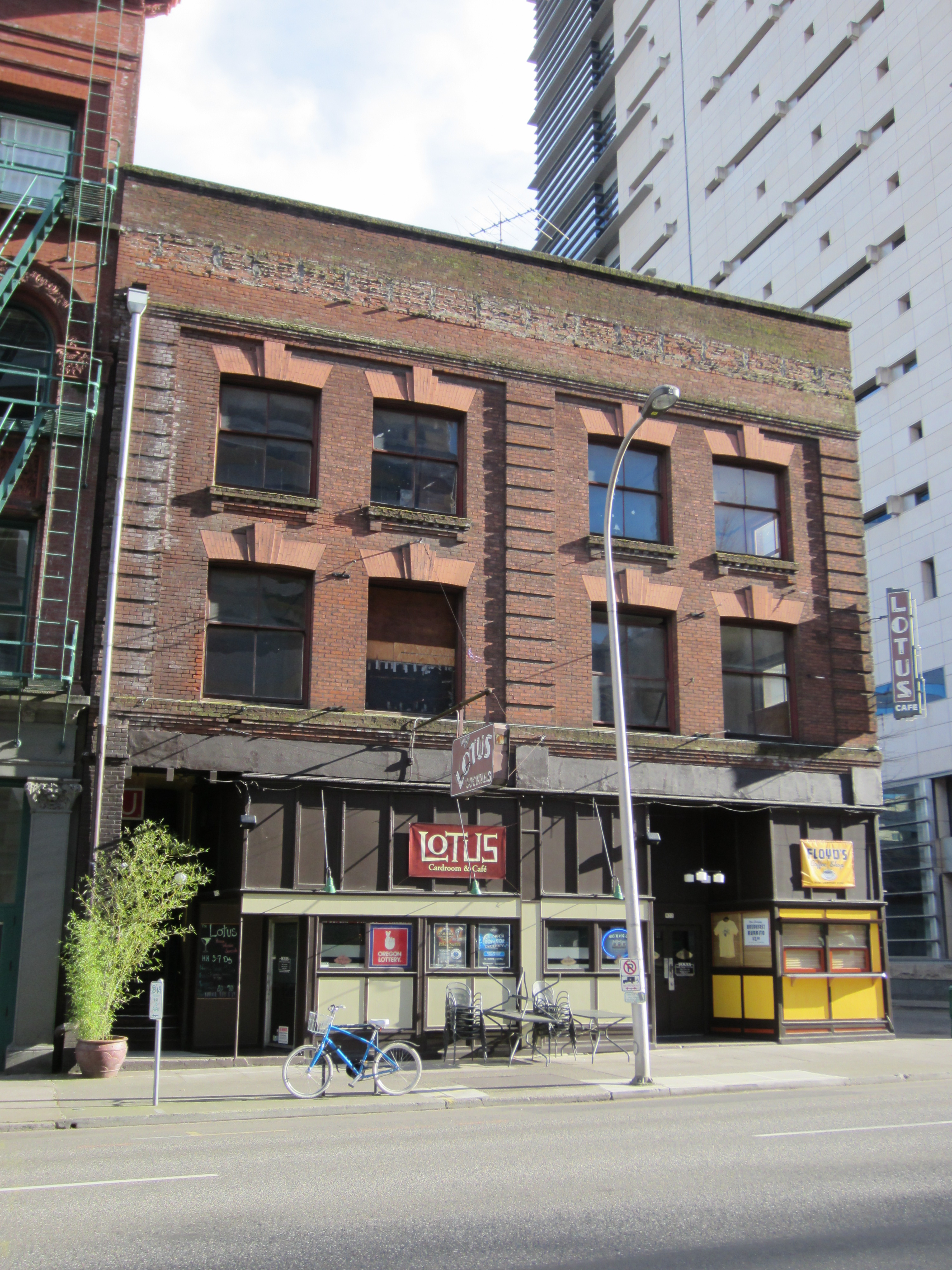 Lotus Cafe in downtown Portland, Oregon